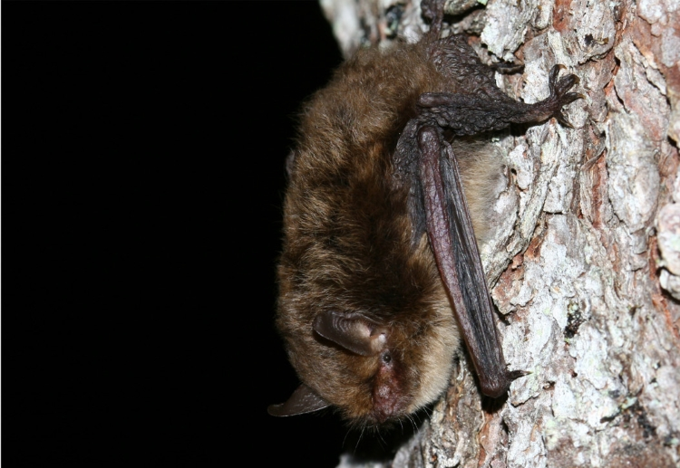 Alcathoe bat (Myotis alcathoe)